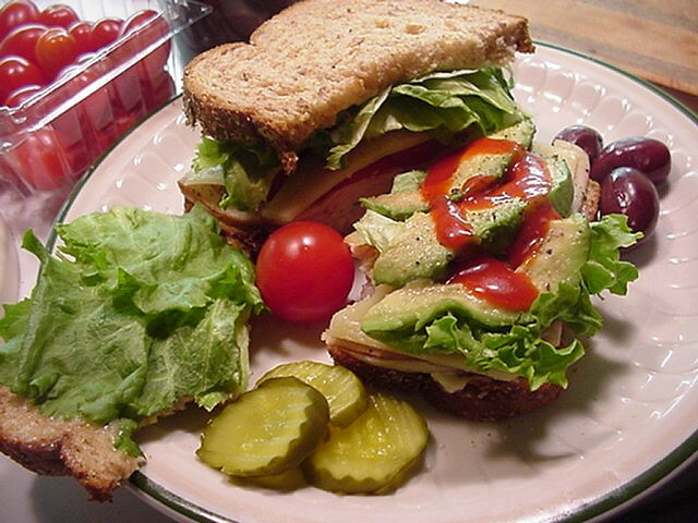 A sandwich made with chicken, swiss cheese, lettuce and avocado slices topped with a drizzle of Catalina French dressing. Catalina dressing is a tomato-based salad dressing made with tomato paste or ketchup, as well as sugar, vinegar, onions, olive oil and spices. Similar to French dressing, Catalina is red-orange in color, and has a distinctive tangy taste. The name "Catalina" derives from a kingdom of Spain, called Catalonia.